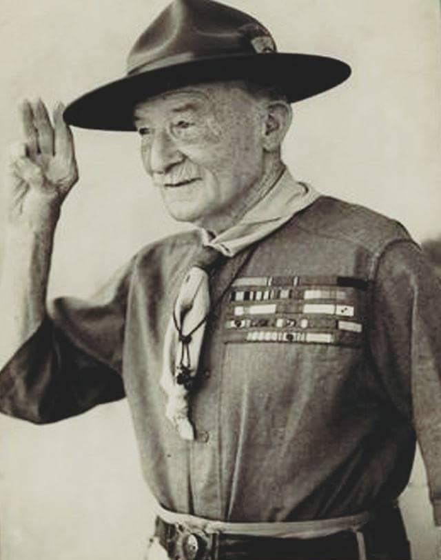 Robert Baden-Powell